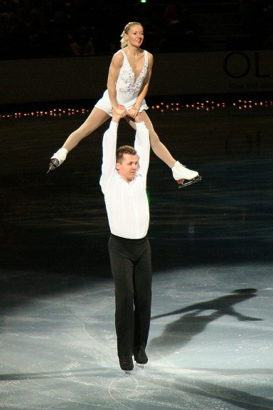 Dorota Siudek (née: Zagórska) and Mariusz Siudek perform a lift during the 2006 Skate America exhibition.